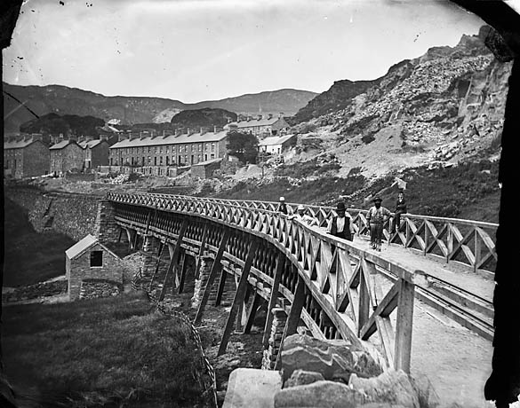 1 negative : glass, wet collodion, b&w ; 10 x 12.5 cm.